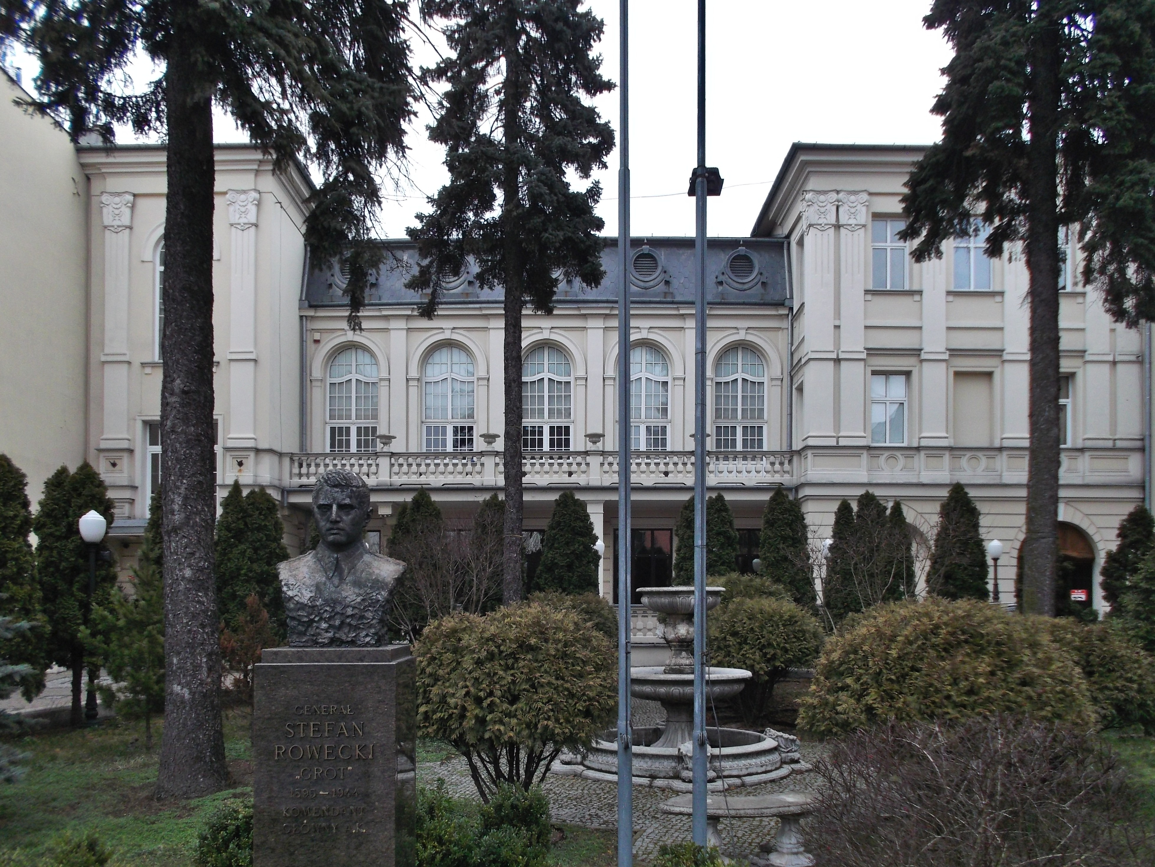 Builiding, 12 3 Maja Street in Piotrków Trybunalski in Poland (Municipal Culture Center).